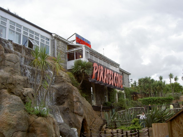 Pirates Cove Pirates Cove is a mini-golf/bowling/caravan park in the holiday town of Courtown.